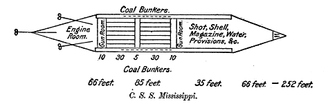 Layout of CSS Mississippi.